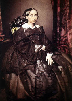 Maria Theresa of Austria, Queen of the Two Sicilies (1816-1867)